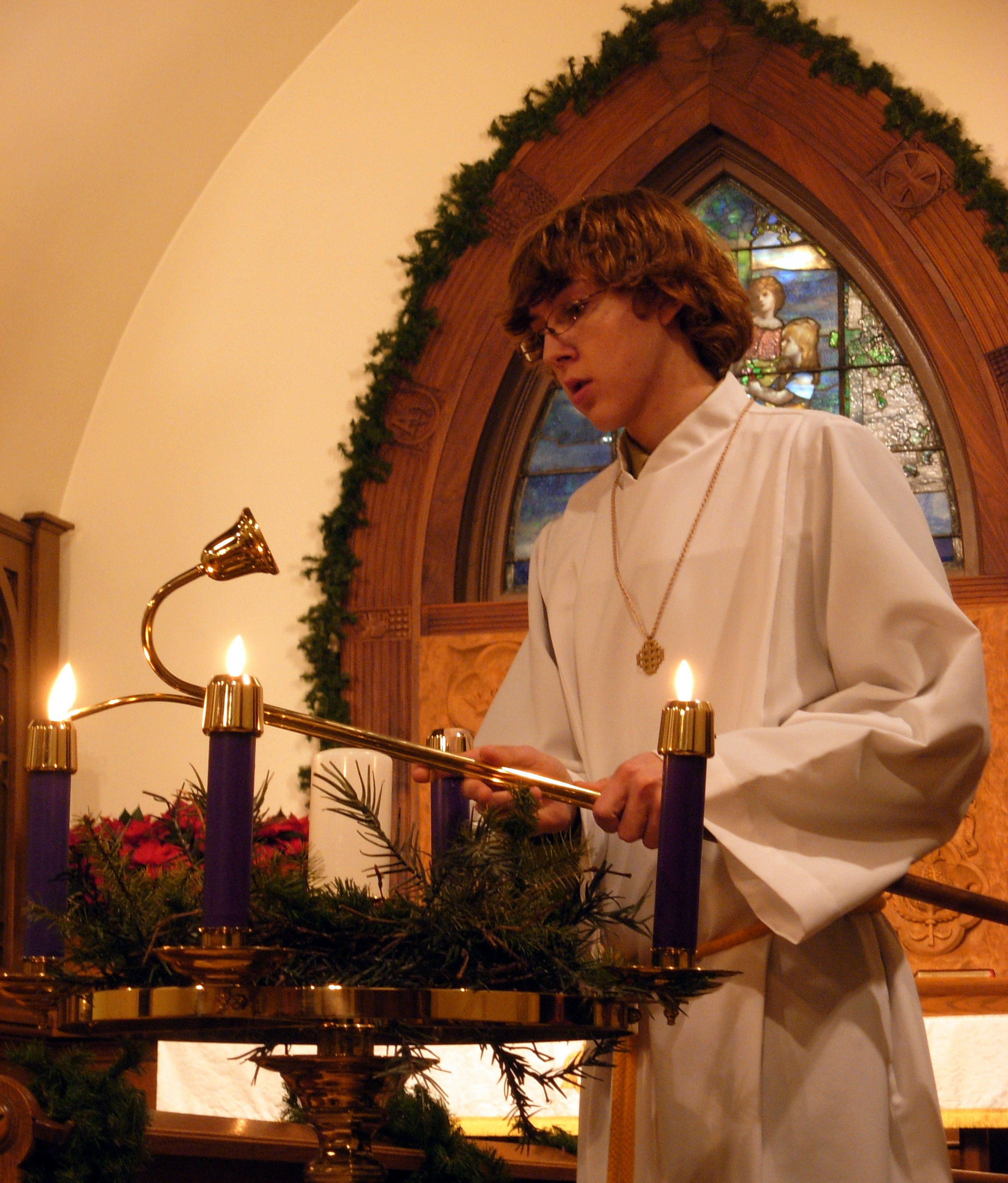 An acolyte lighting Advent candles on Christmas Eve at Calvary Episcopal Church in Rochester, Minnesota, United States